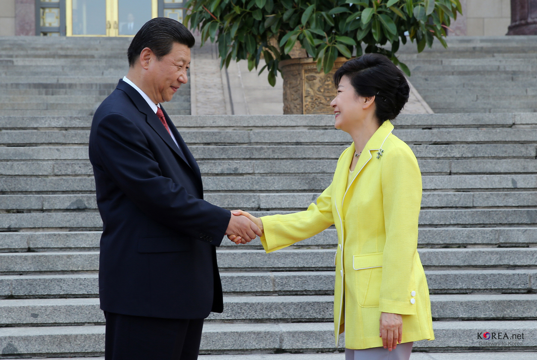 President Park Geun-hye and Chinese President Xi Jinping shake hands in fornt of the Great Hall of the People in central Beijing on June 27 2013. 06. 27. Photo=Cheong Wa Dae (Related Article) ‘President Park holds 1st Korea-China summit in Beijing’ Presidential trip to reshape future vision of Seoul-Beijing ties 중국 국빈방문 중인 박근혜 대통령이 27일 베이징 인민대회당 광장에 도착해 마중나온 시진핑 중국 국가주석과 악수를 하며 인사하고 있다. 베이징, 중국 사진=청와대 人民大会堂东门外广场举办欢迎仪式迎接韩国总统朴槿惠